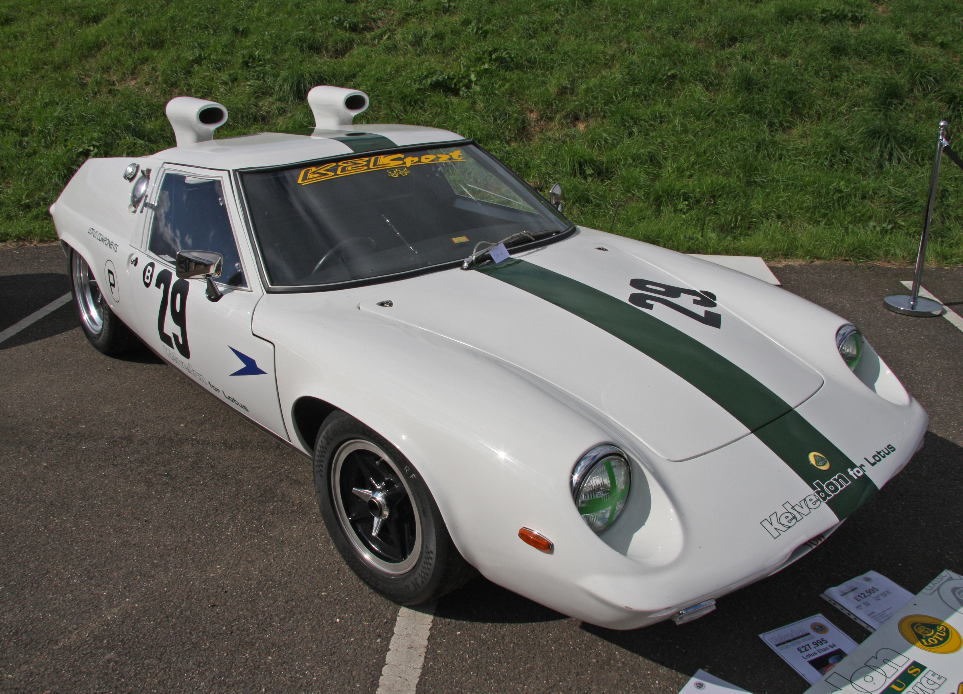 Lotus 47. Known as the Snorkel Car Lotus 60th Celebration